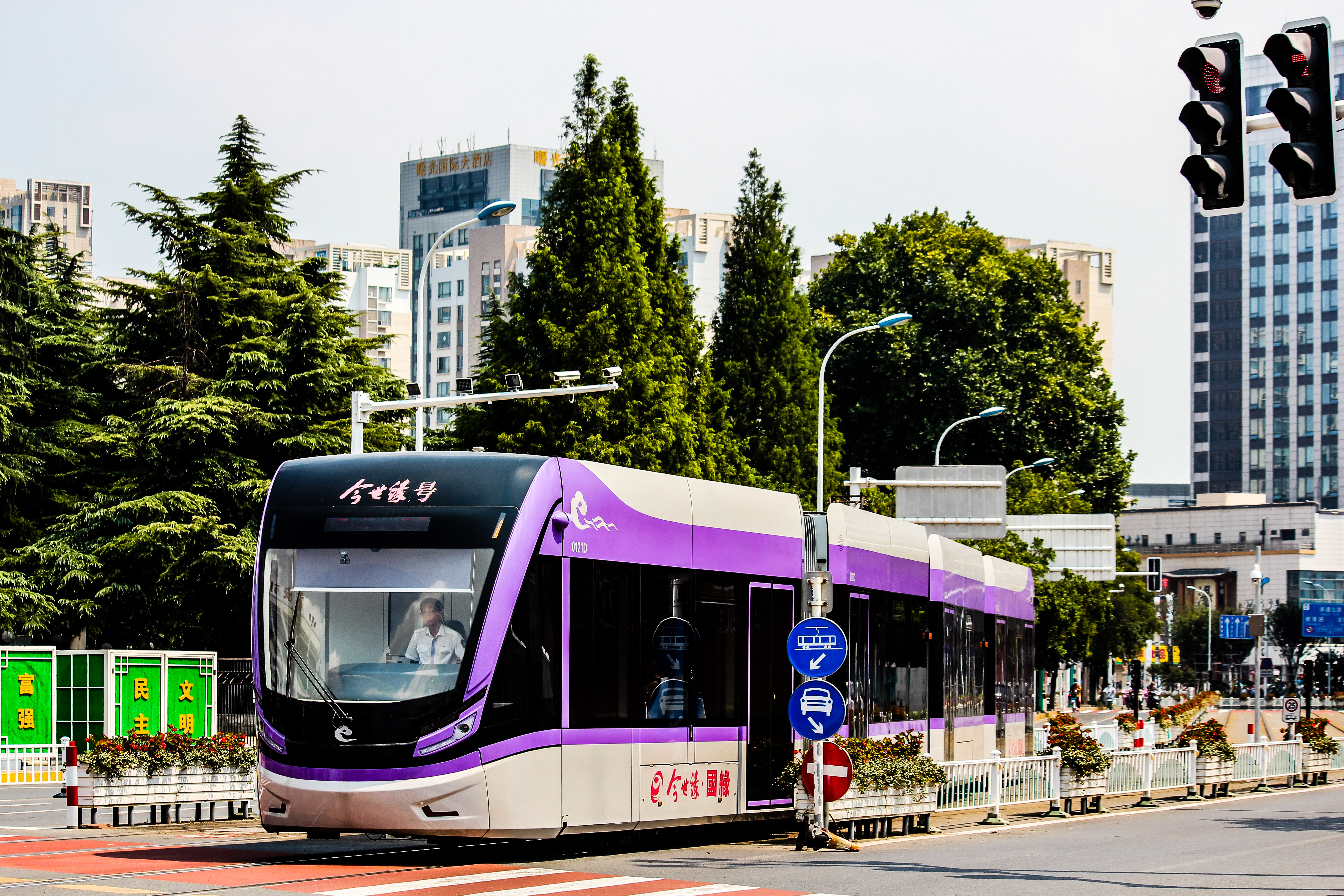 Huaian Trams Line 1